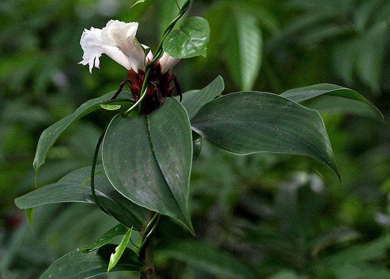 Spiral ginger Cheilocostus speciosus . Kolkata, West Bengal, India